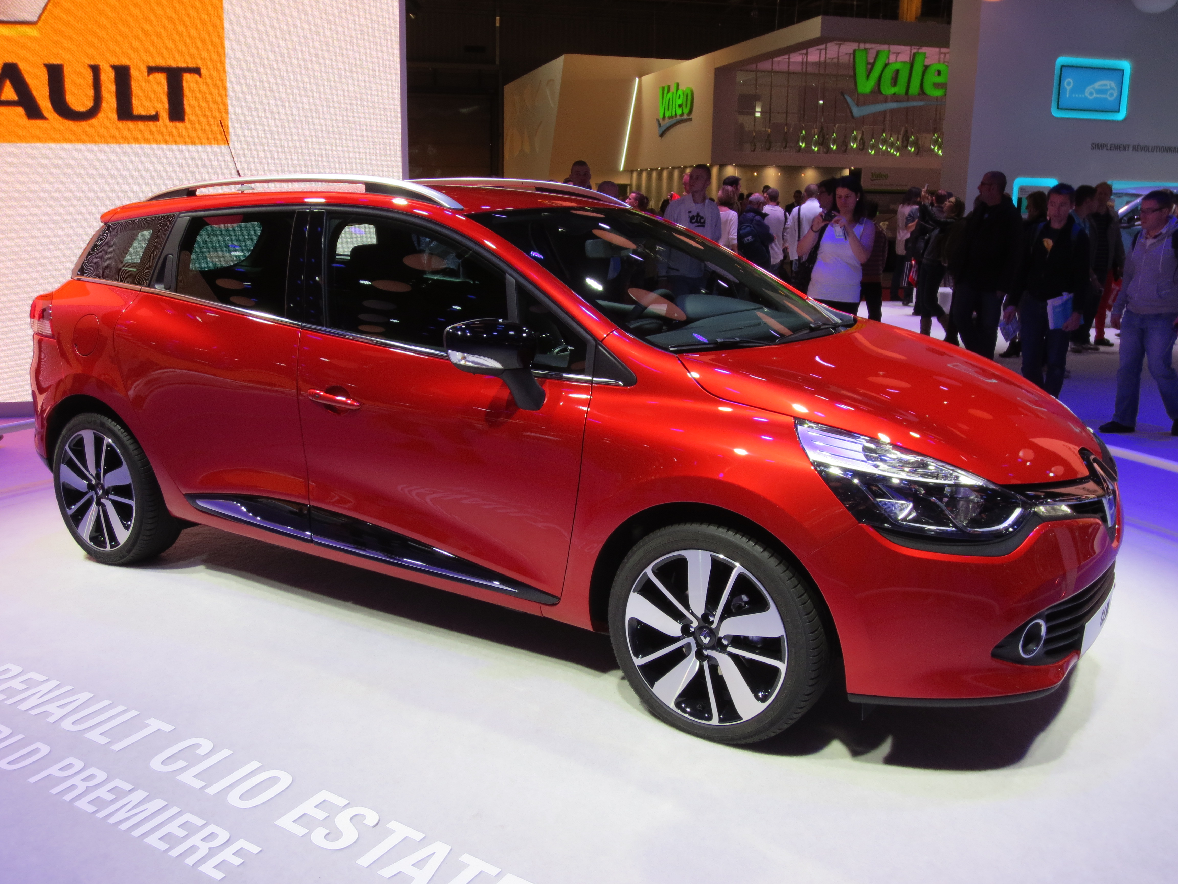 Subject: Renault Clio IV Estate Author: Luc106 Date:September 29th, 2012 Event: Salon Automobile 2012 Place/Country: Parc des Expositions, Porte de Versailles, Paris I release all rights in the public domain.